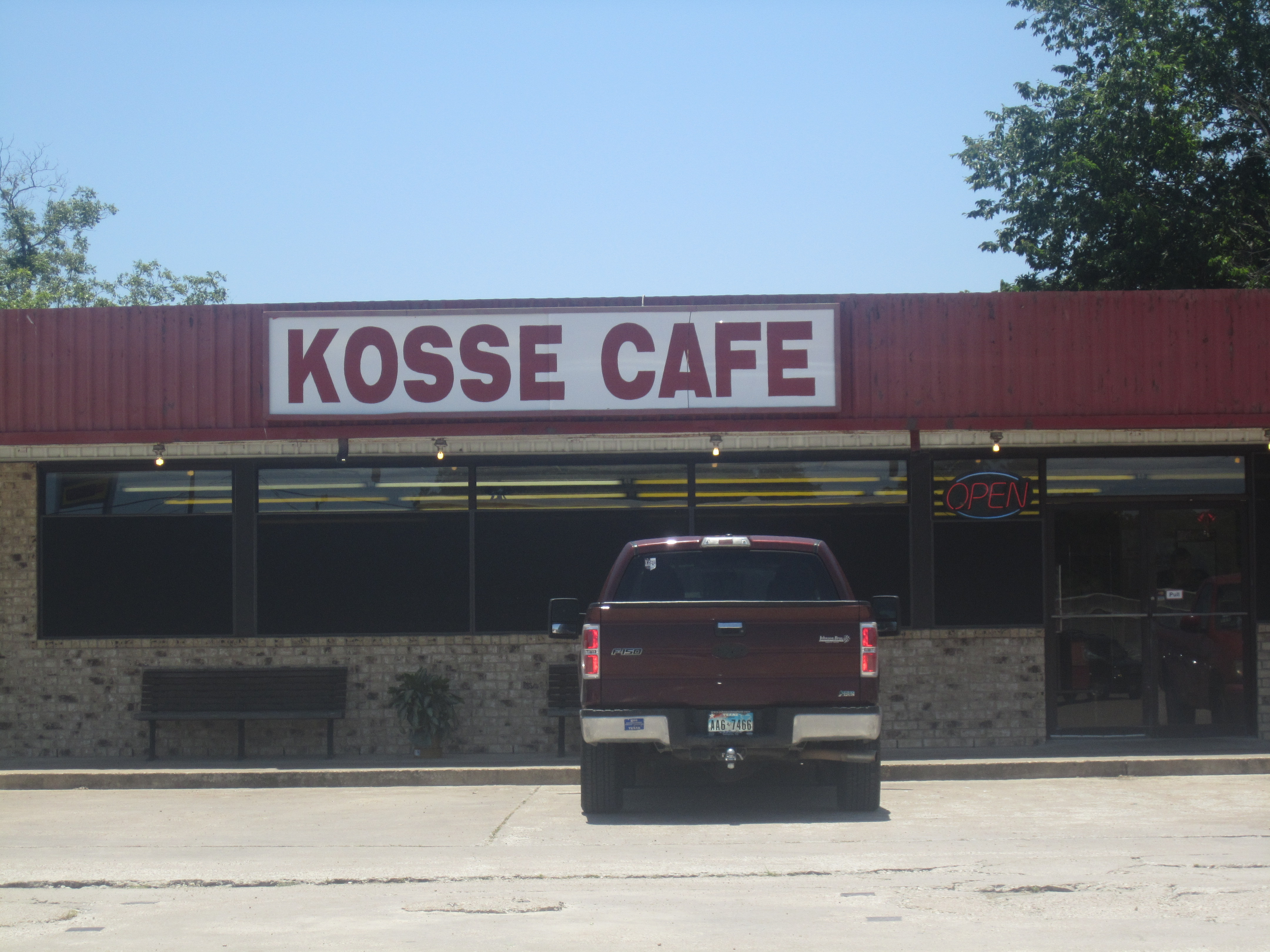 I took photo of Kosse, TX, Cafe with Canon camera.